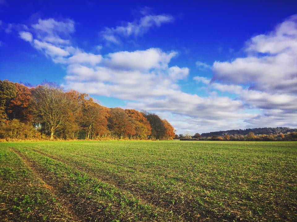 farm and woodland view soulton hall